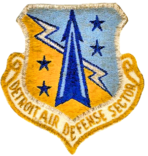 Emblem of the Detroit Air Defense Sector (ADC)